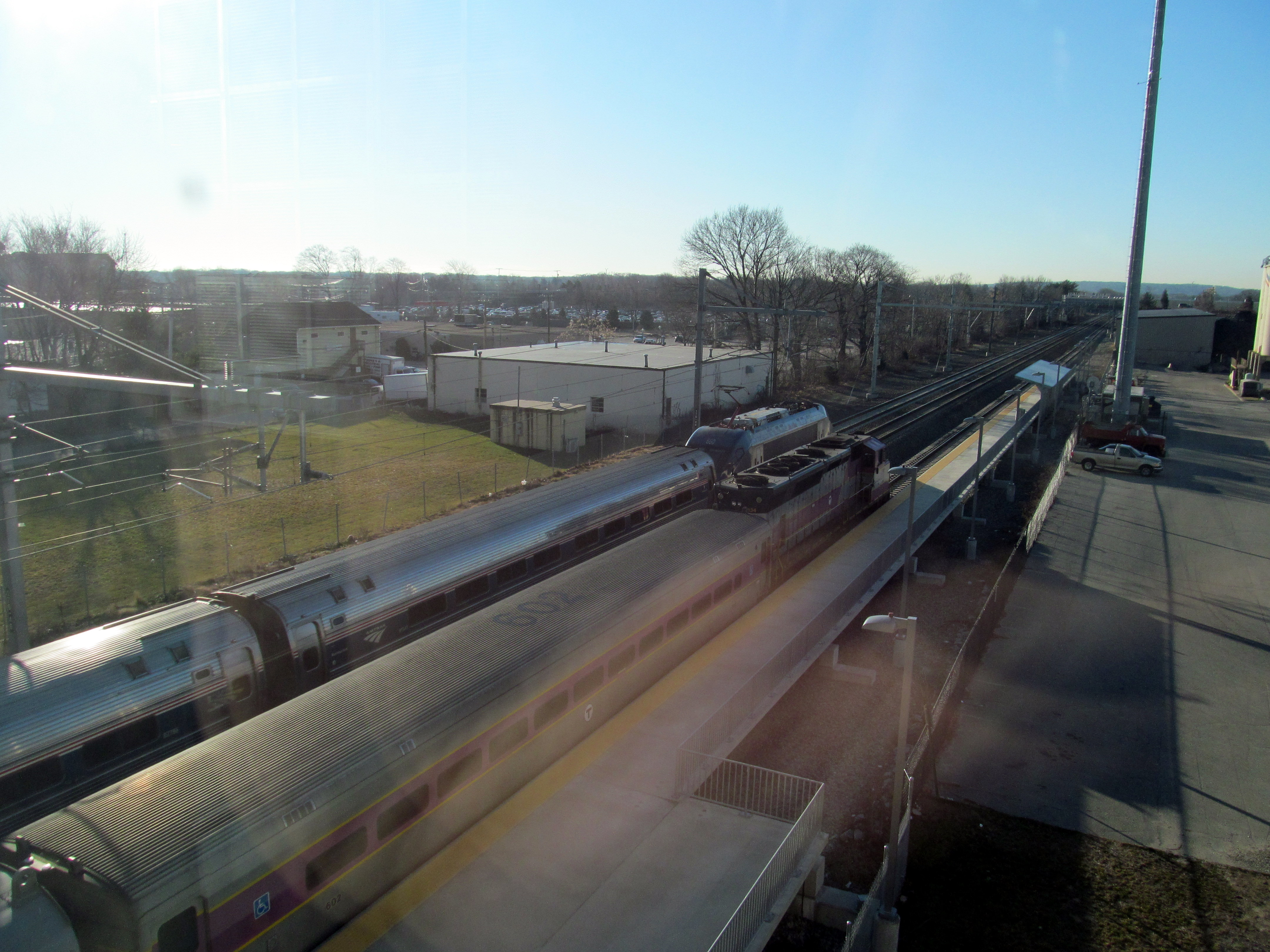 A Northeast Regional running at track speed passes a stopped MBTA commuter rail train at T.F. Green Airport